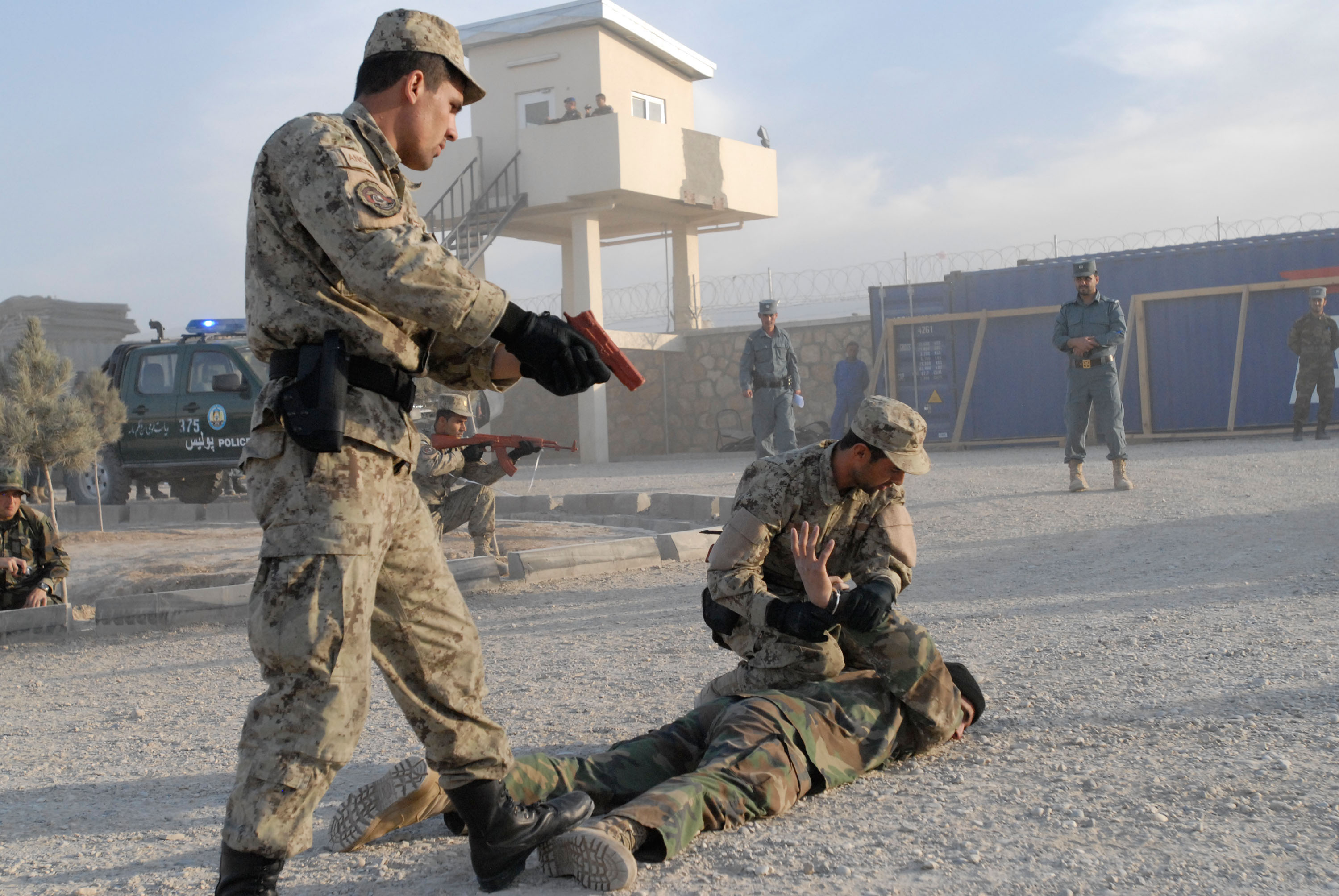 Afghan National Civil Order Police officers practice detaining a suspect at the Mazar-e Sharif Regional Training Center on December 12, 2010.